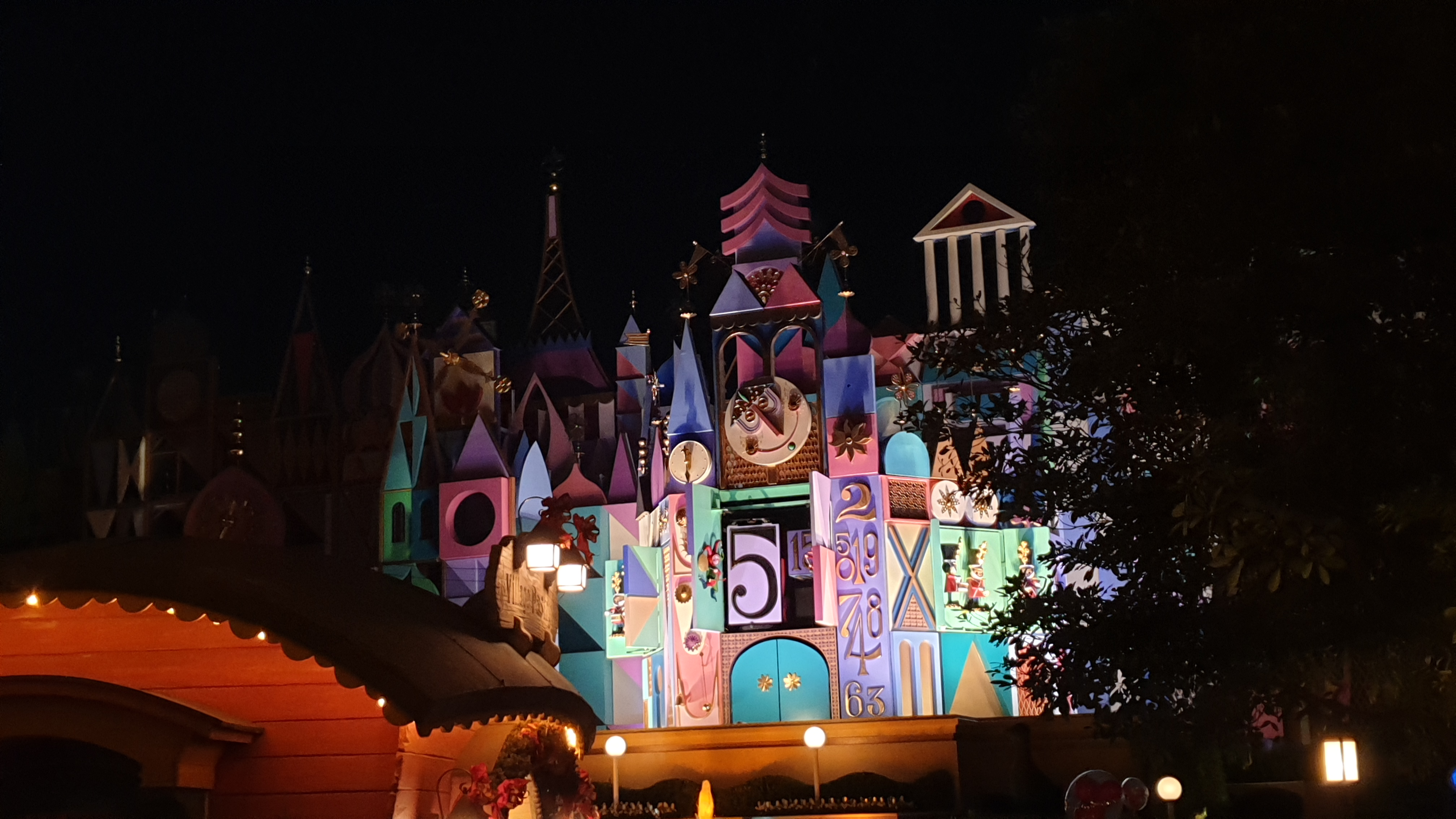 Tokyo Disneyland Dec 2019